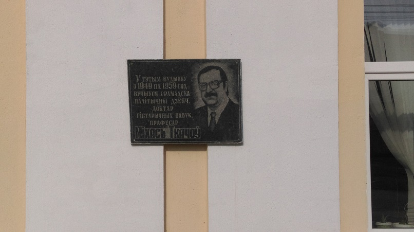 Memorial plaque of Mikhas Tkachou in Mstcislau